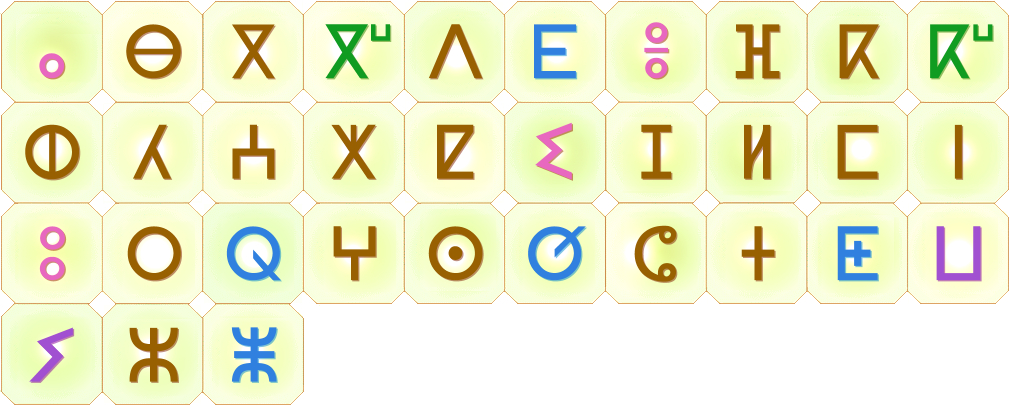 IRCAM Tifinagh Alphabet.